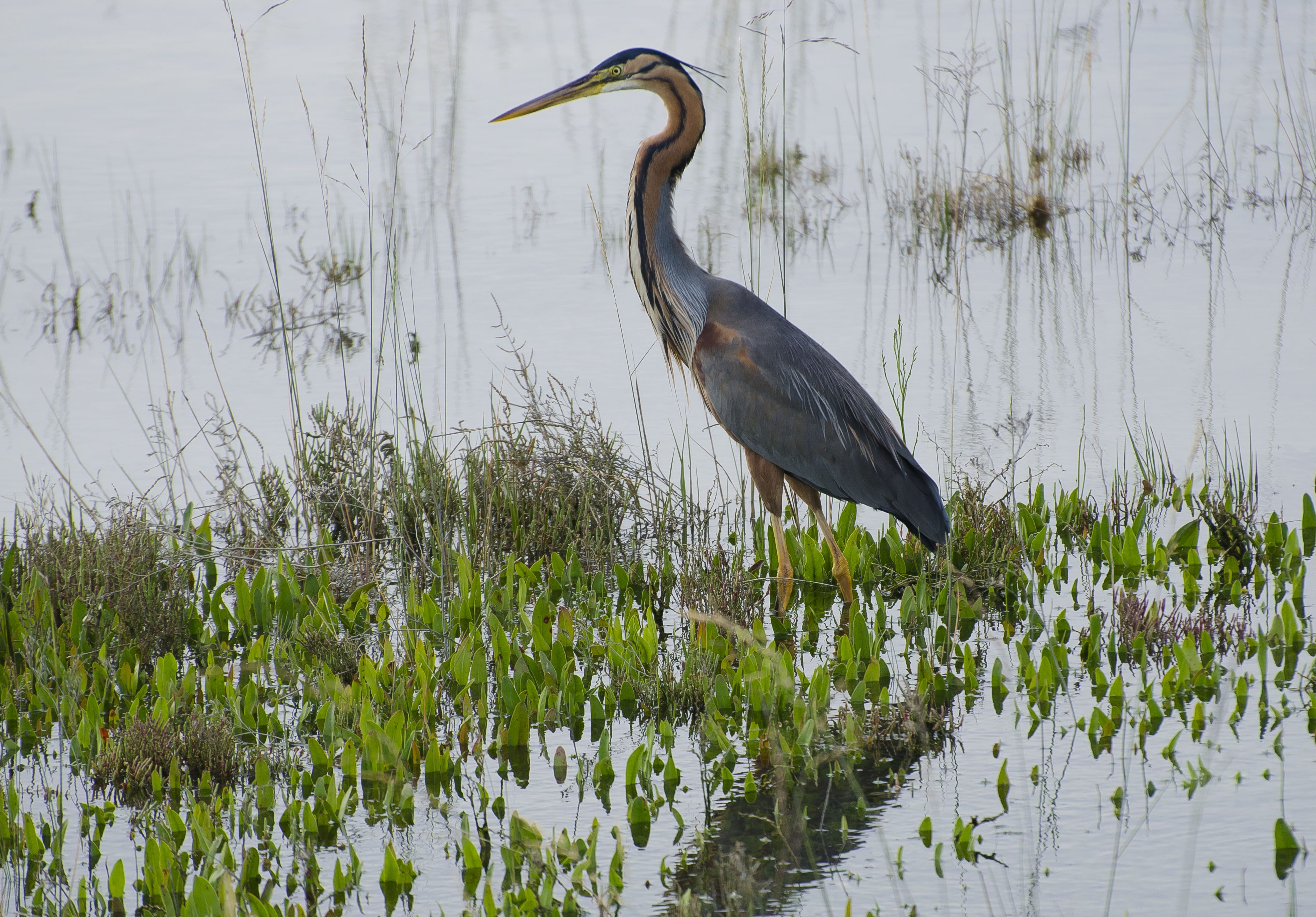 Purple heron, Lagoon of Venice, Italy